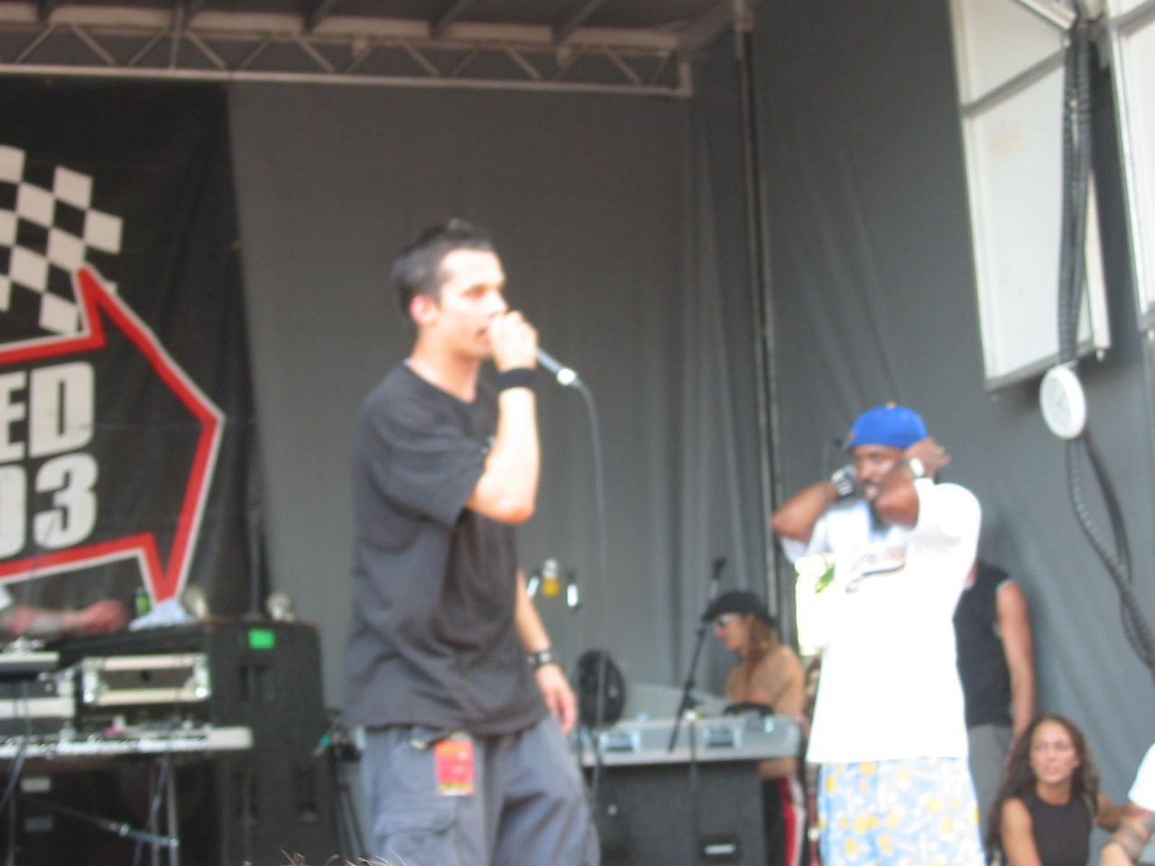 Slug from the band Atmosphere performing